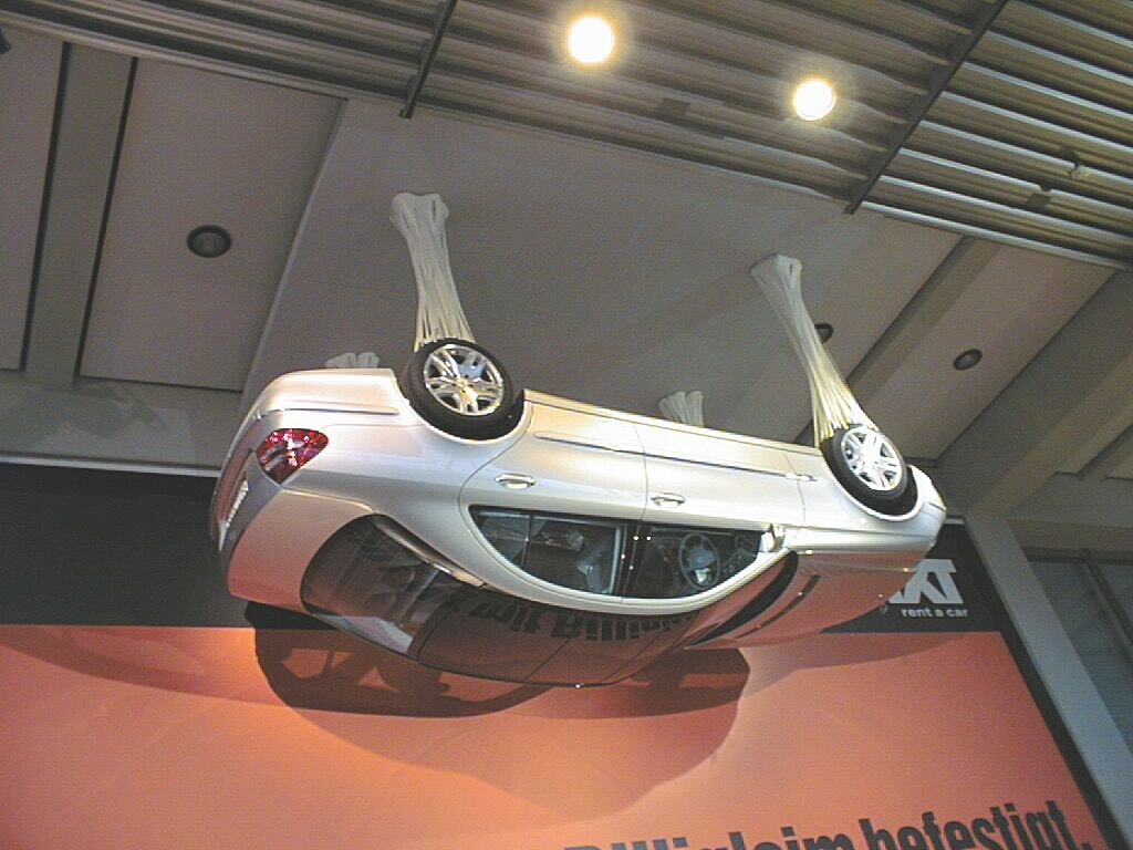 Spectacular photo taken in the gallery of the airport of Hamburg. Car suspended upside down from the ceiling. Demonstration of the strength of bonding?